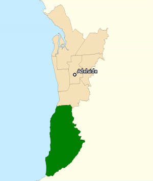 This image incorporates data that is: © Commonwealth of Australia (Australian Electoral Commission) 2009 Division of Kingston 2010